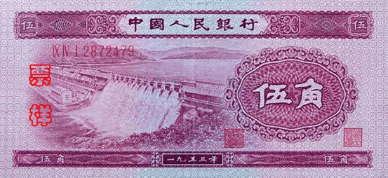 Front of second series 5 jiao renminbi